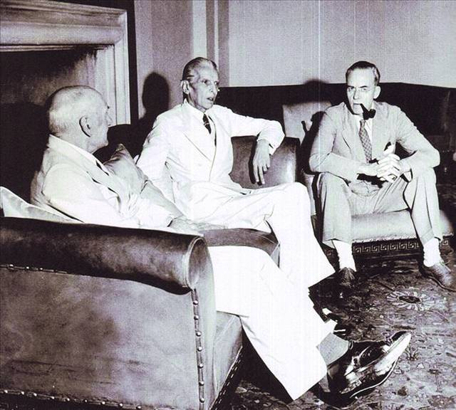 Muhammad Ali Jinnah with Sir Stafford Cripps and Lord Pethick Lawrence.